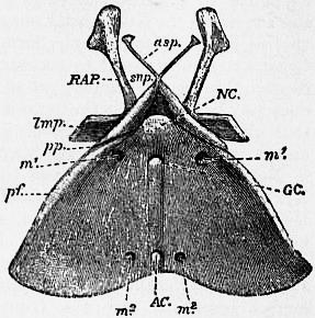 Ventral surface of the entosternum of scorpion (Palamnaeus indus, de Geer). asp, Paired anterior process of the sub-neural arch.snp, Sub-neural arch.ap, Anterior lateral process.lmp, Lateral median process.pp, Posterior process.pf, Posterior flap or diaphragm of Newport. m1 and m2, Perforations of the diaphragm for the passage of muscles.DR, The paired dorsal ridges.GC, Gastric canal or foramen.AC, Arterial canal or foramen.NC, Neural canal or foramen.(After Ray Lankester, Quart. Journ. Micr. Sci., N. S. vol. xxiv, 1884.)